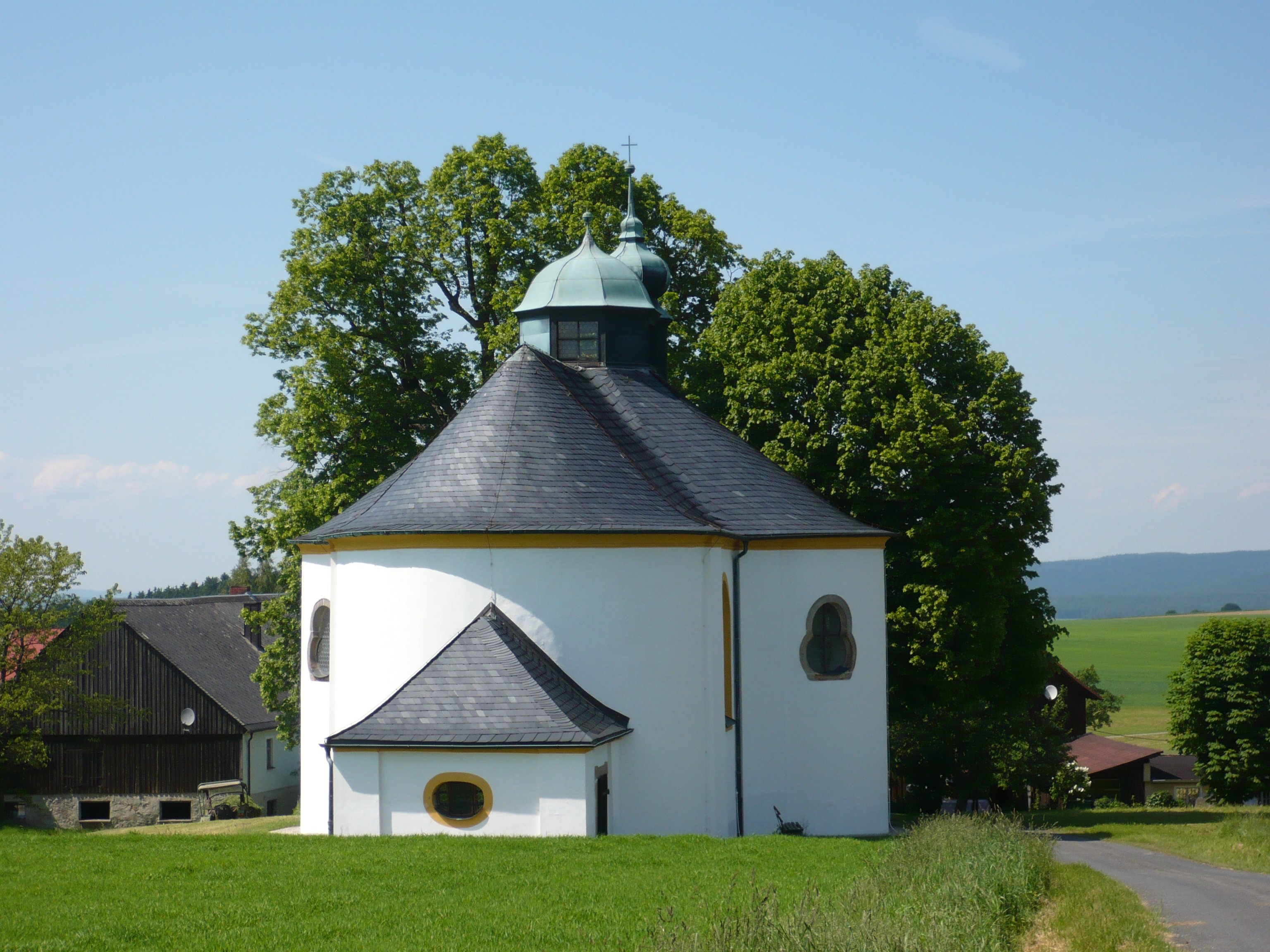 The Jakobuskirche (St. James Church) in Marchaney, district of the city Tirschenreuth (Upper Palatinate)